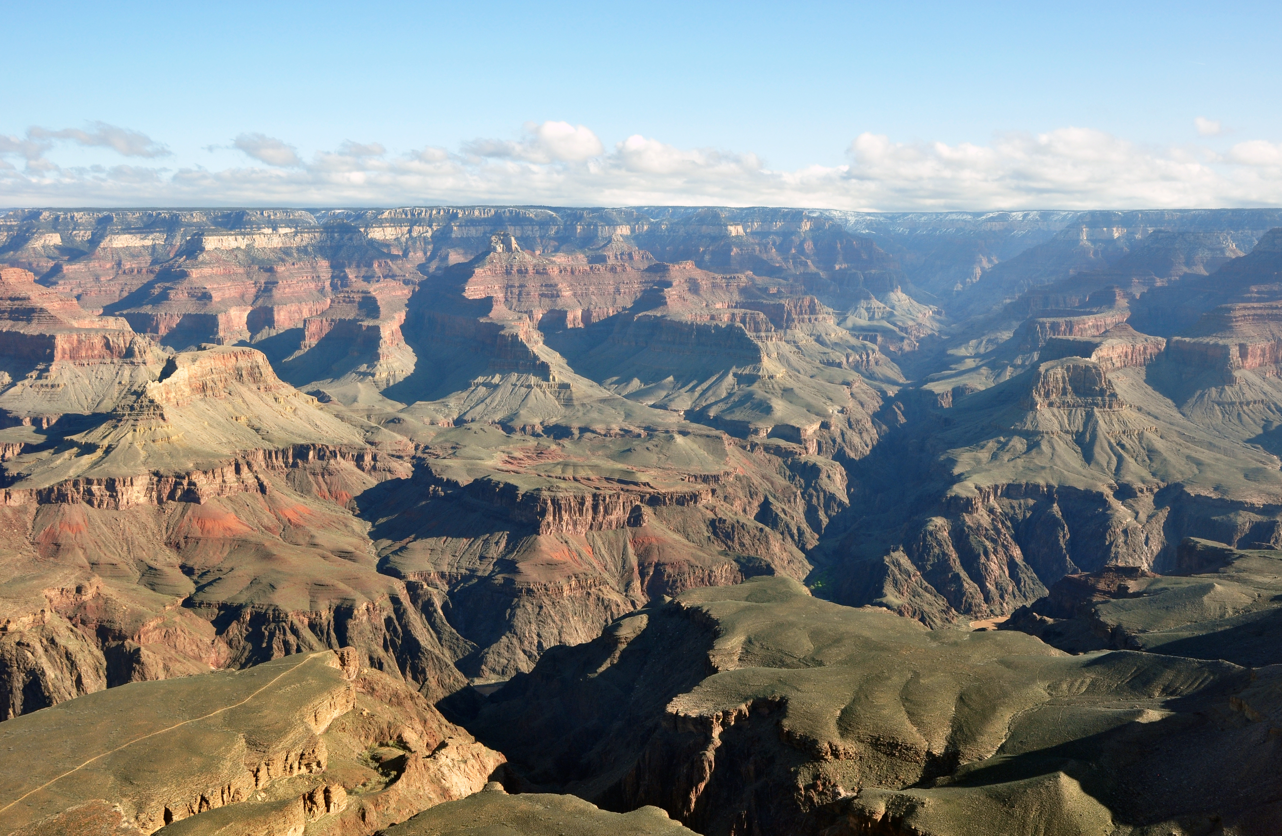 Grand Canyon view from Yavapai Point March 2010. The spur trail, at left is on west side Garden Creek (canyon), leeds to Plateau Point. It branches off the Bright Angel Trail down to Colorado River from 'Grand Canyon Village' (just west of Yavapai Point).